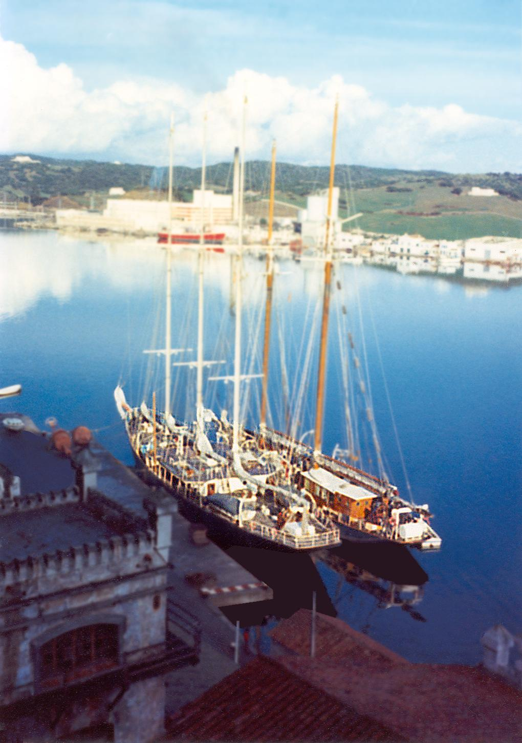 Quayside, Mahón, Minorca.